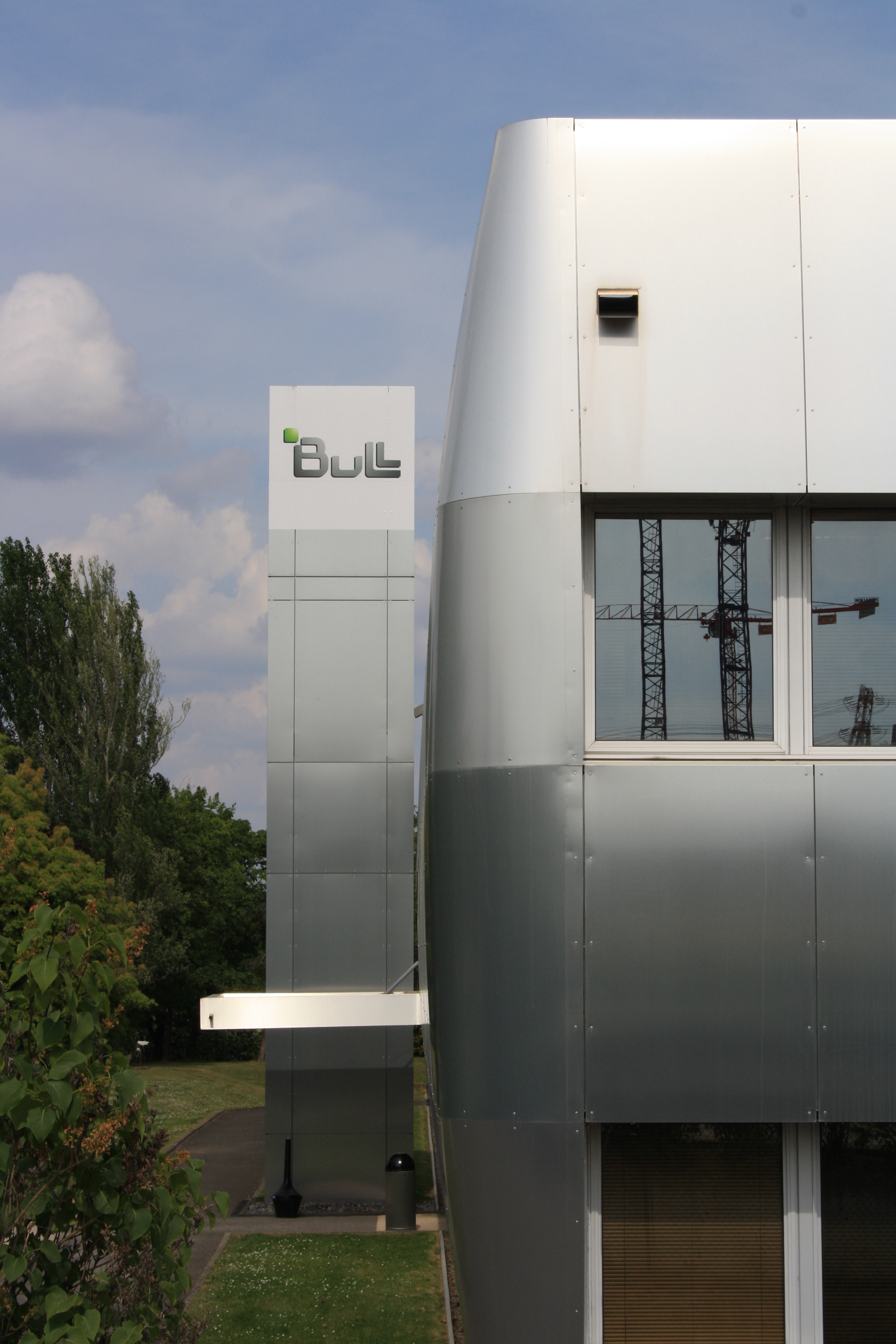 Massy, Essonne in France